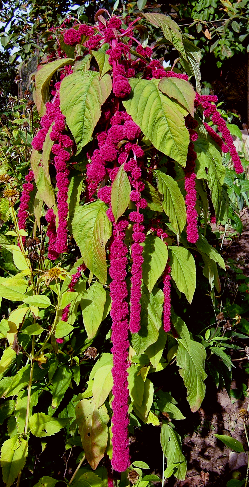 Amaranth, loves-lies-bleeding, foxtail amaranth, Tassel Flower